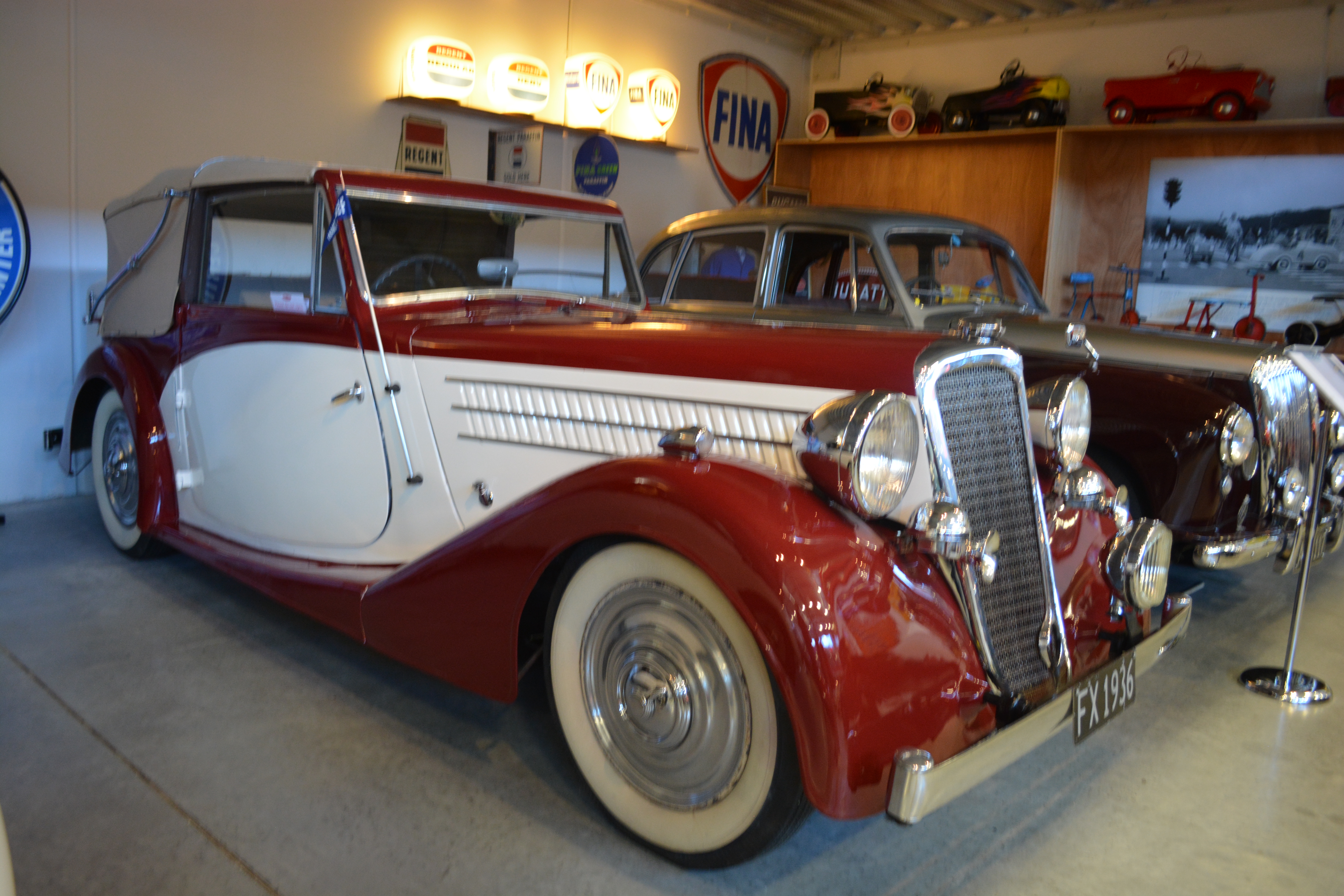 1936 Standard Sixteen drop head coupé by Avon